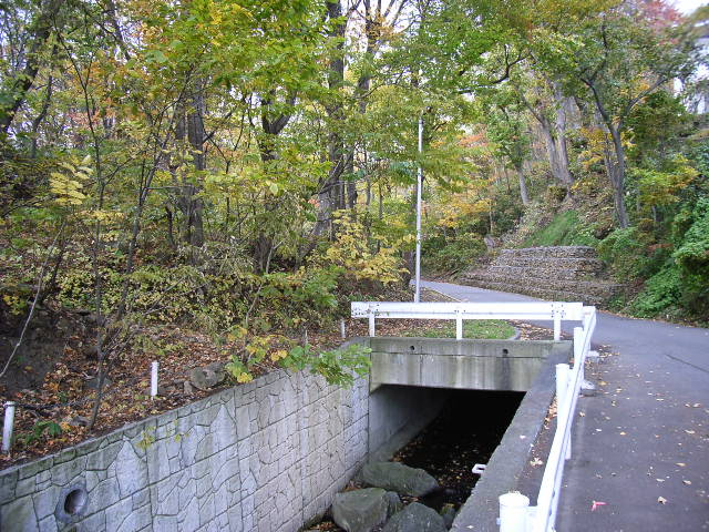 Yamahana River. Upper stream of Yamahana river. Moiwashita, Minami ward, Sapporo, Hokkaido prefecture, Japan. Toward northwest.